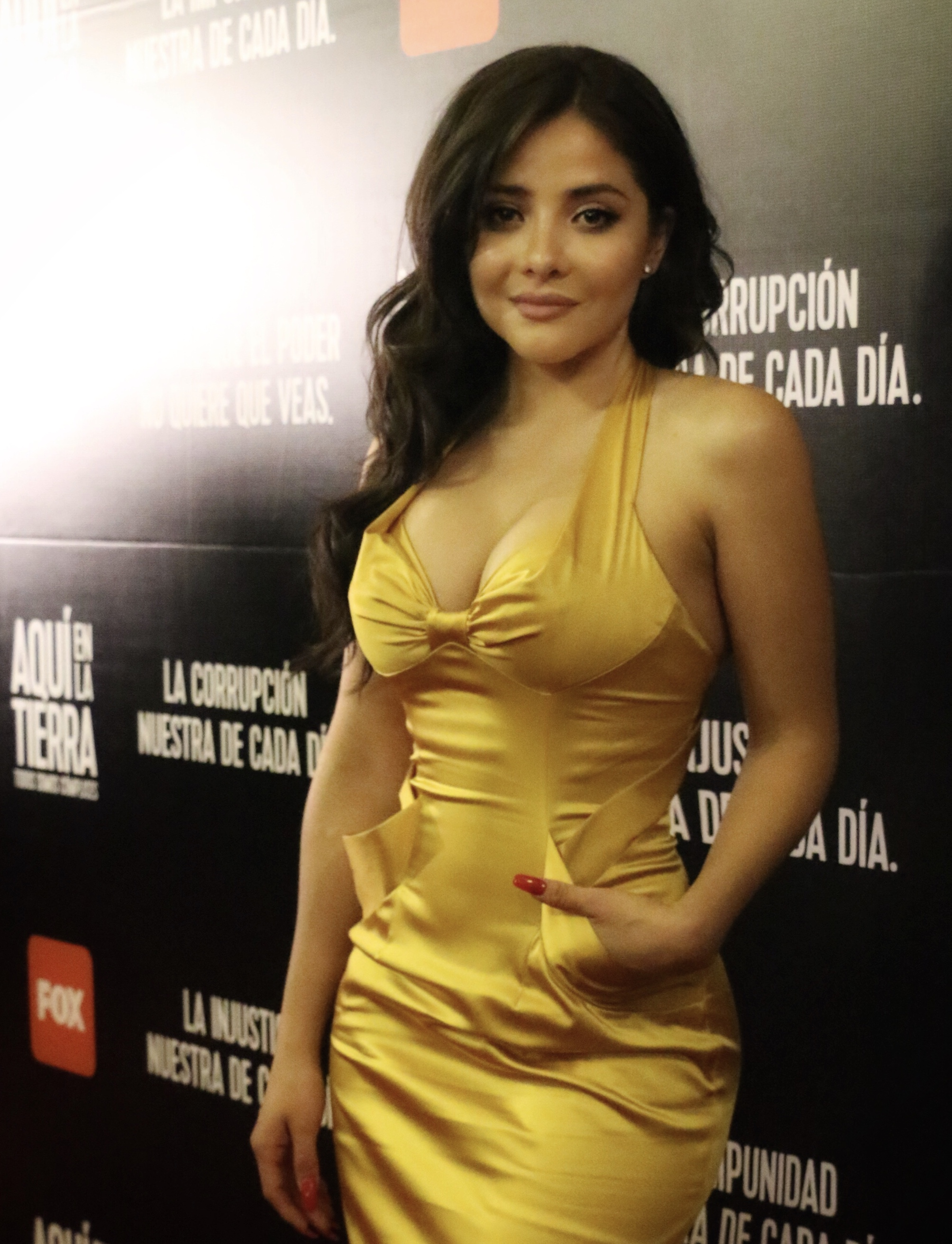 Teresa Ruiz attending the premiere of Aquí en la Tierra in Mexico City.